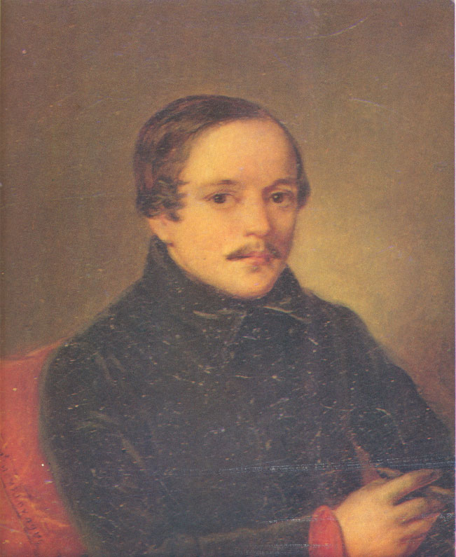 A portrait of Mikhail Yurievich Lermontov by Pyotr Zabolotsky, painted in 1840.